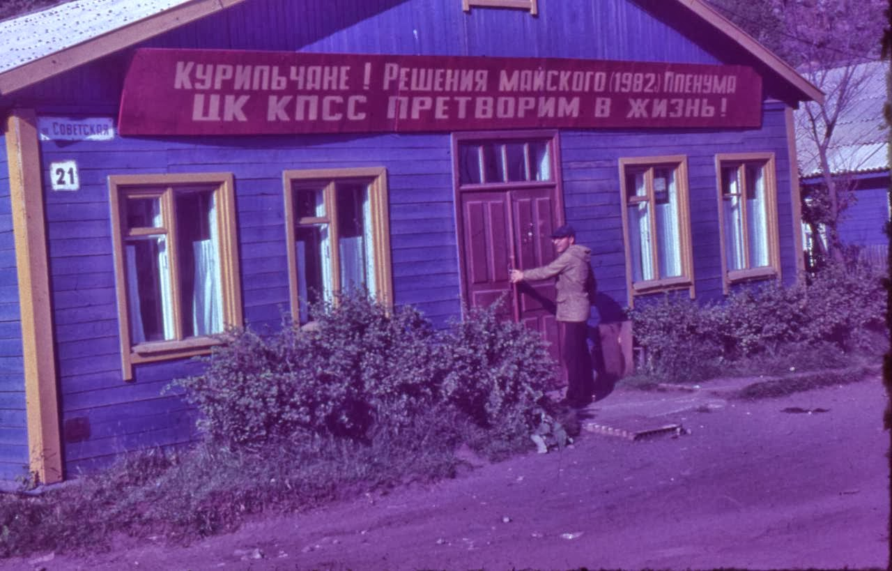 Kurilsk, local administrative building, 1981